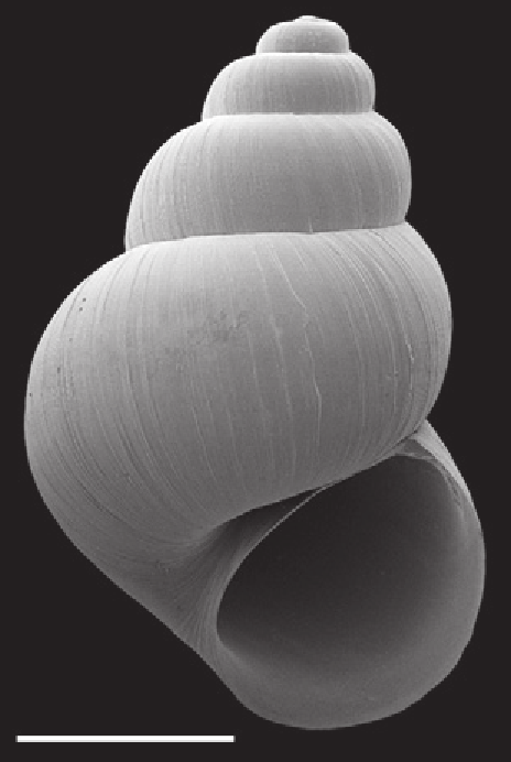 Photo of the shell USNM 874932 of Marstonia comalensis. Scale bar is 1.0 mm.